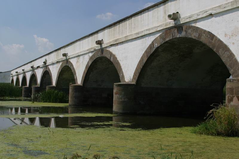 Hortobágy Kilenclyukú Híd - Nine arched Bridge in Hortobágy Puszta, Hungary